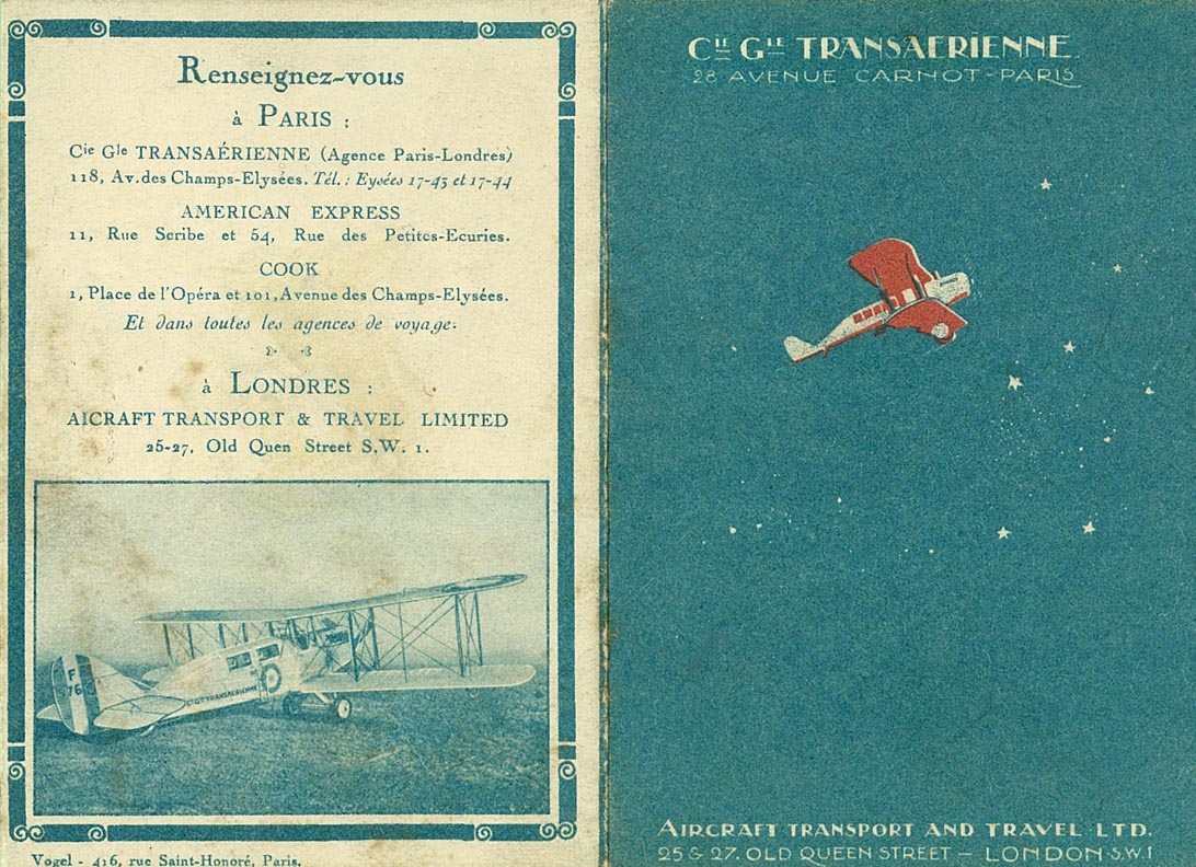 Compagnie Générale Transaérienne timetable (frontcover) 1920